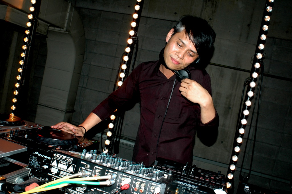 Shinichi Osawa, The One album release party, 2008-07-24 zadig&voltaire presents osawa shinichi's new album. lots of cool people, great music, beautiful views and plentiful alcohol. great space provided by avex in tokyo, aoyama. (DSC_1685)